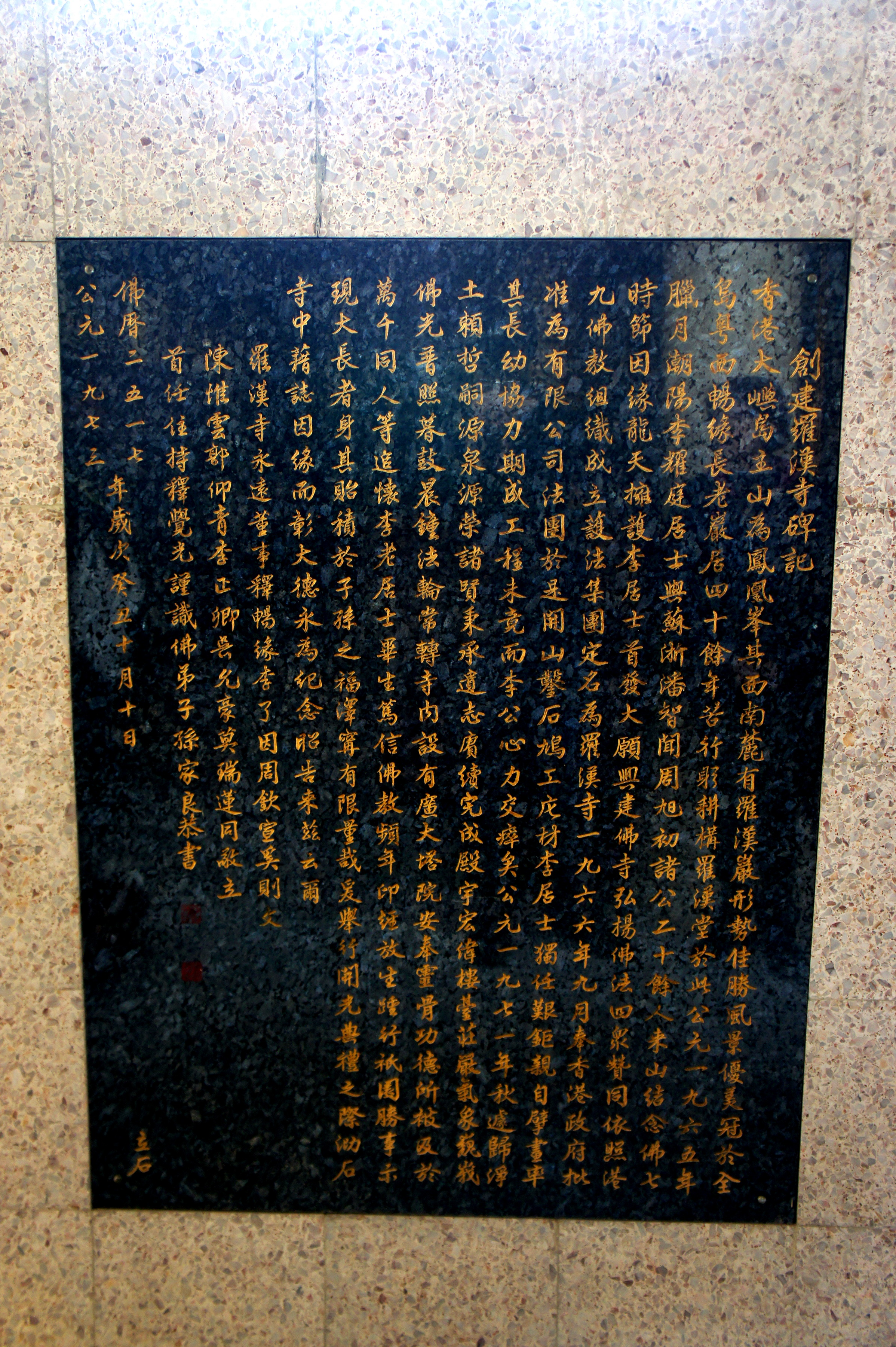 Inscription inside the Main Shrine of Lo Hon Monastery, Shek Mun Kap, Tung Chung, Hong Kong.